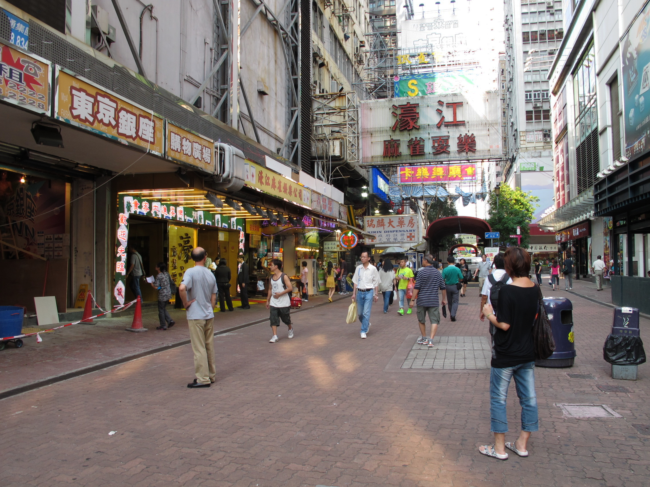 Soy Street Pedisterian Walkway